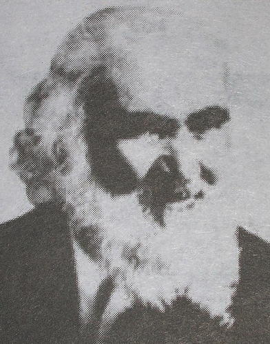 Iranian personality Hossein Kazemzadeh Iranshahr (1884-1962)